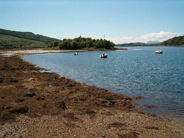 Eilean Mhartan on Loch Sween, Mid Argyll. The distant mountains are the Paps of Jura